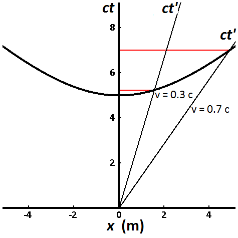 In this spacetime diagram, the hyperbola illustrates all the points that can be reached from the origin in a proper time of 5 meters (the time axis having been scaled by c) by clocks traveling at different speeds.